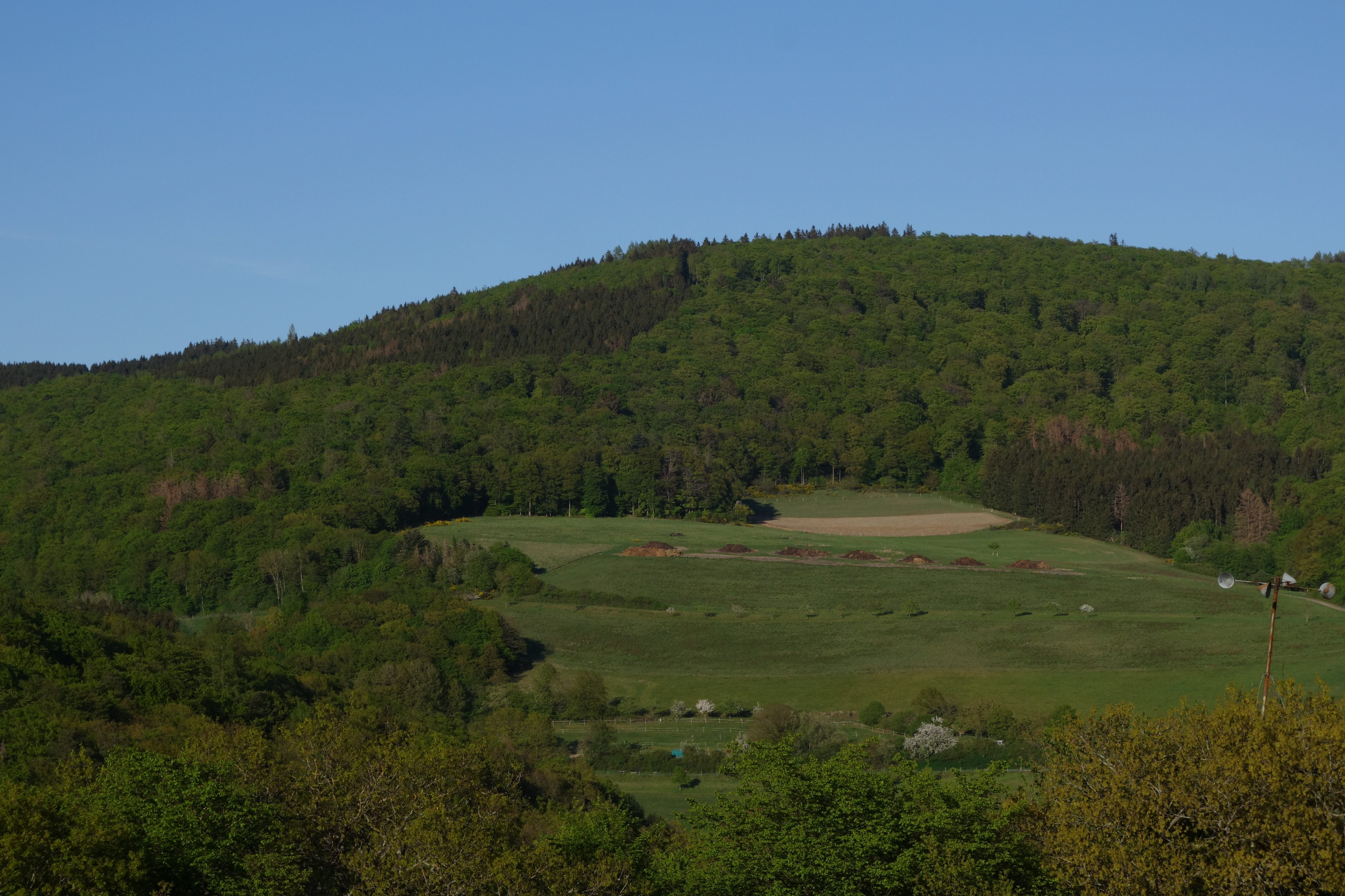 Nordkuppe des Windhain von Westen, vom Isberg, gesehen.